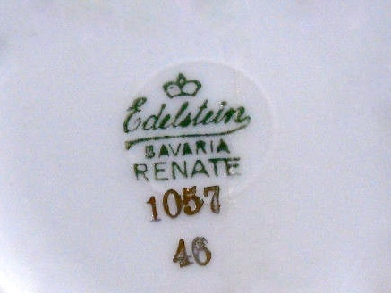 Julius Edelstein porcelain manufacturer, trademark, 1920s and 1930s